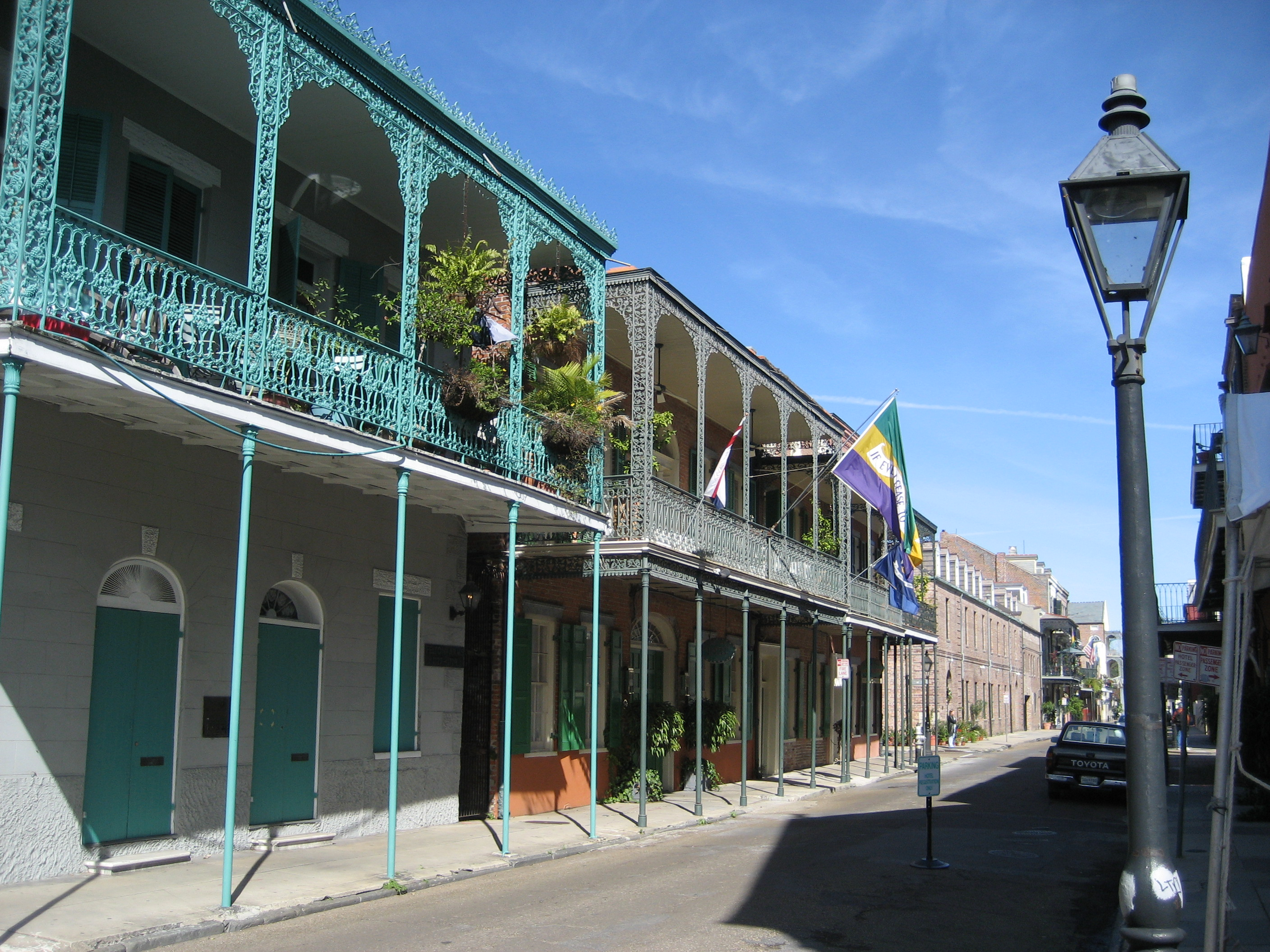 French Quarter, New Orleans, Louisiana